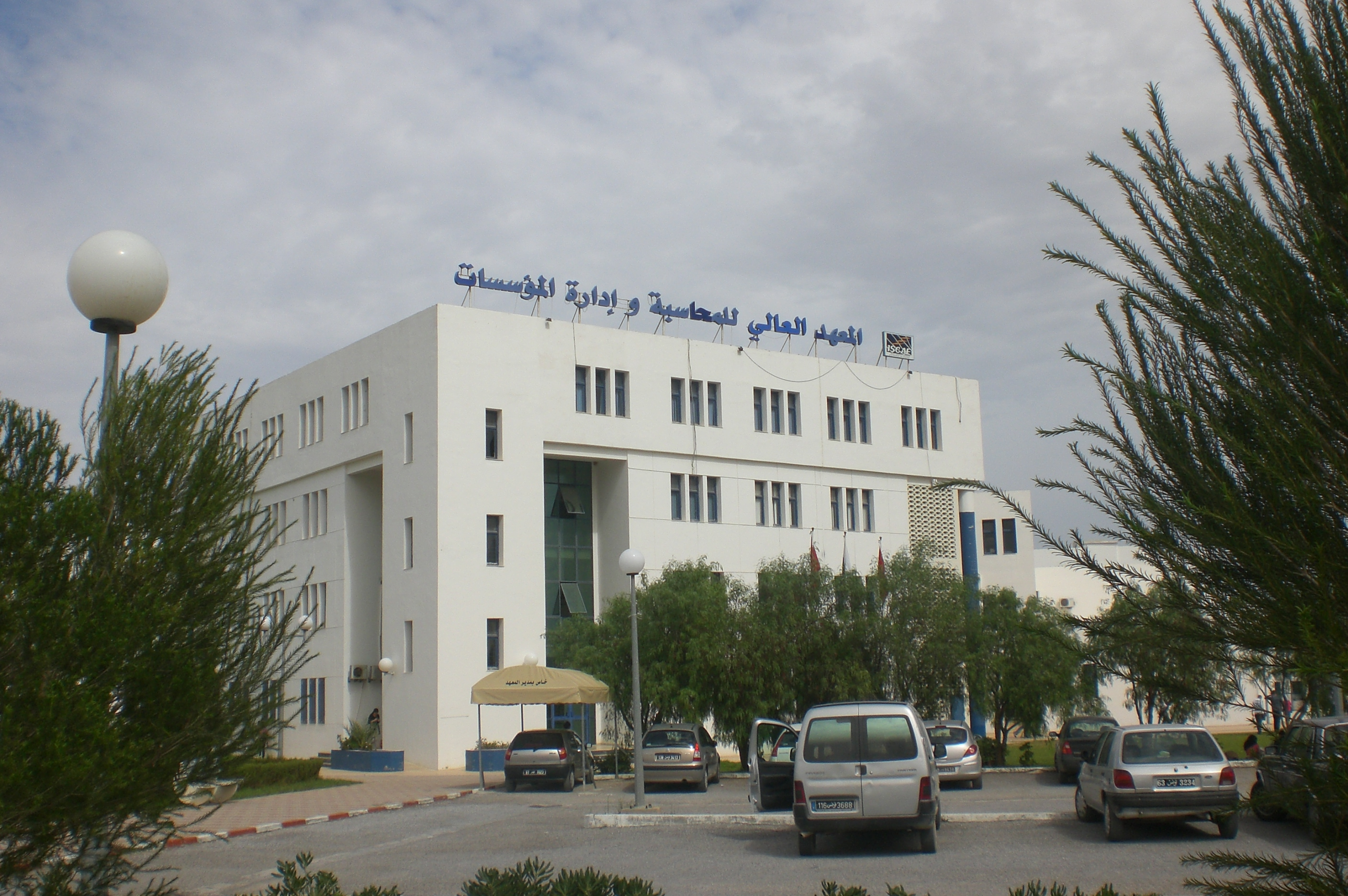 Higher School in Tunis